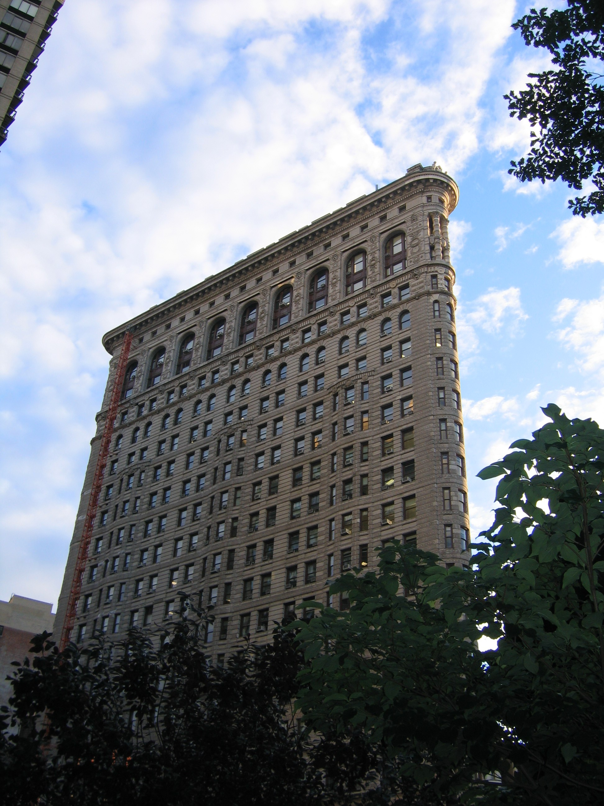 Flatiron Building in New York City